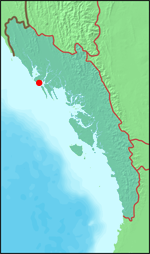 Position of Sittwe, Rakhine State, Myanmar